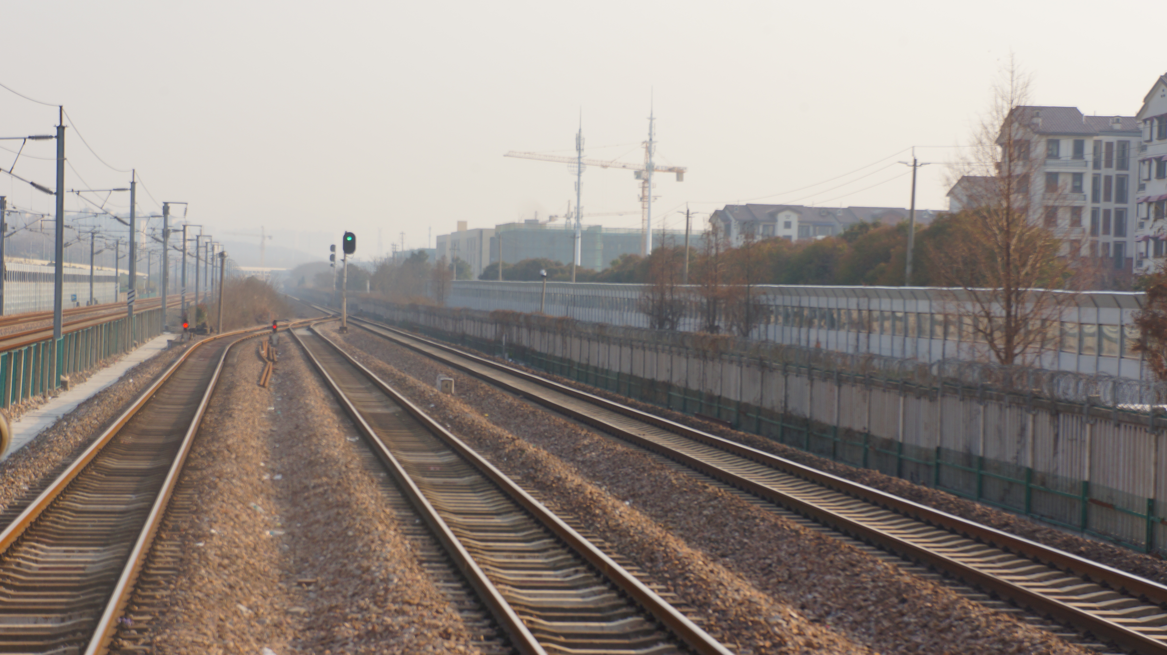 201601, Tracks on Zijinshan Railway Station (Tongling Direction)